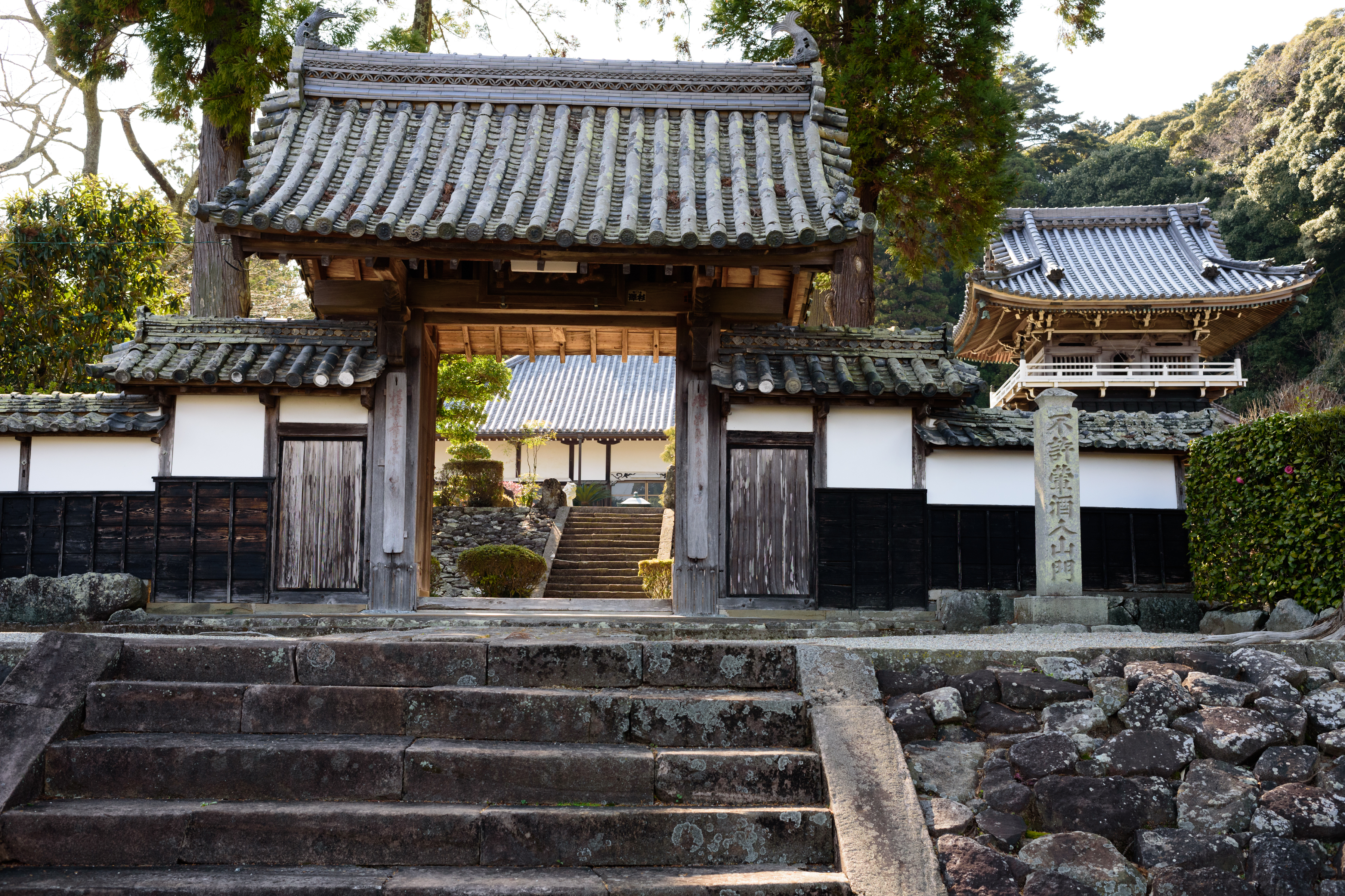 Jogenji, at the foot of Mt. Azaka, in Matsusaka, Mie, Japan